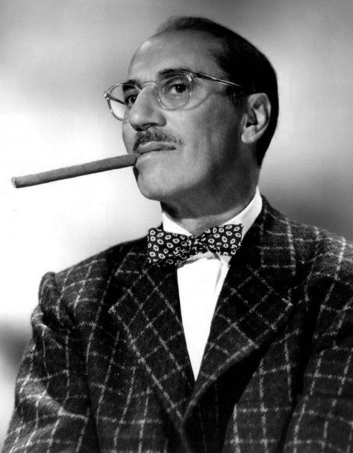 Publicity photo of Groucho Marx from the television program You Bet Your Life.